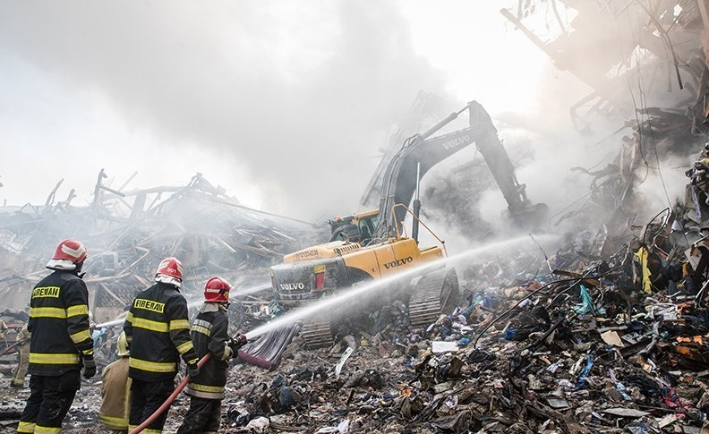 Plasco building rubble operation services